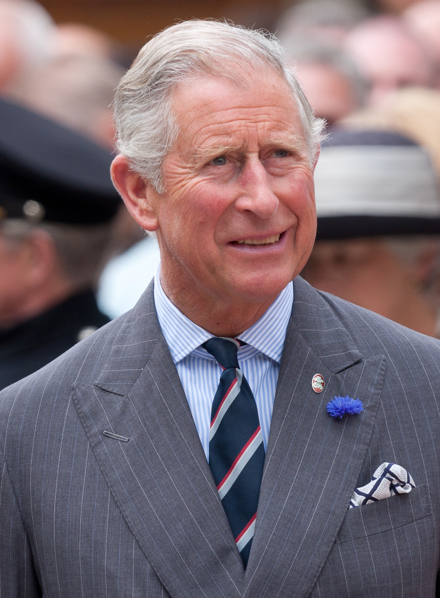 Charles, Prince of Wales in Jersey on 18 July 2012.